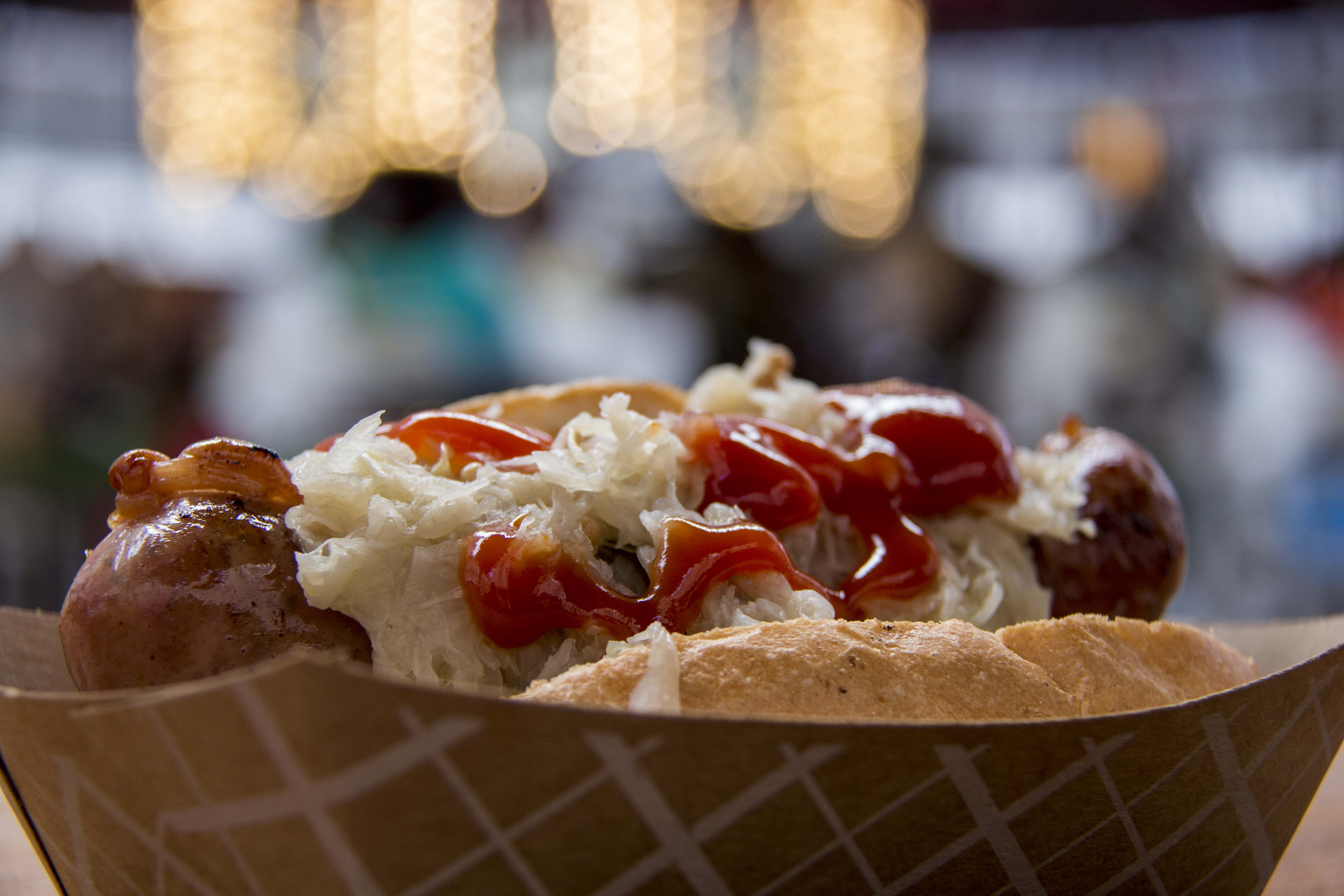 German Bratwurst at Christmas Village in Philadelphia in LOVE Park